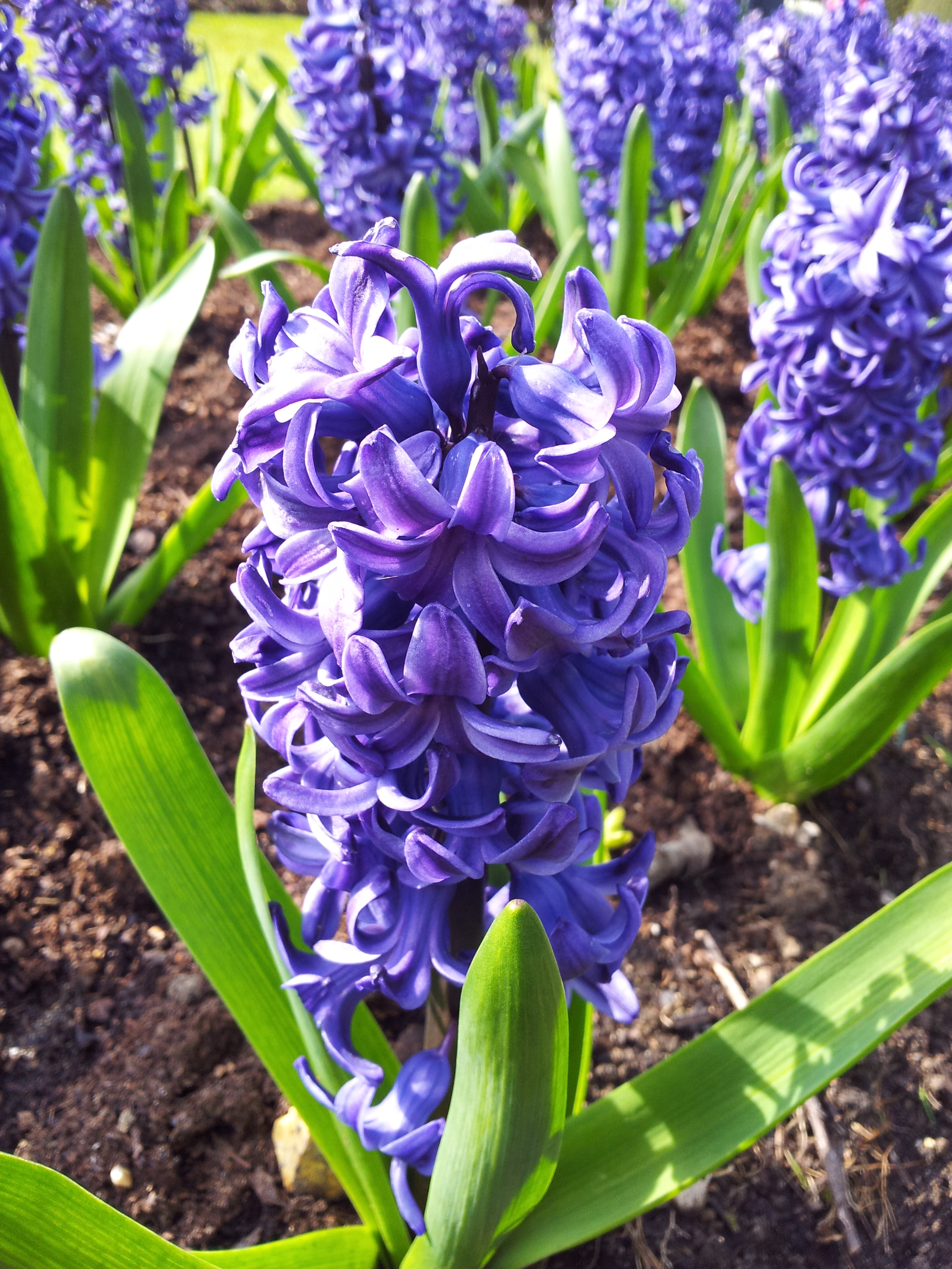 Hyacinth in the formal garden at Anglesey Abbey. Taken Apr 2012